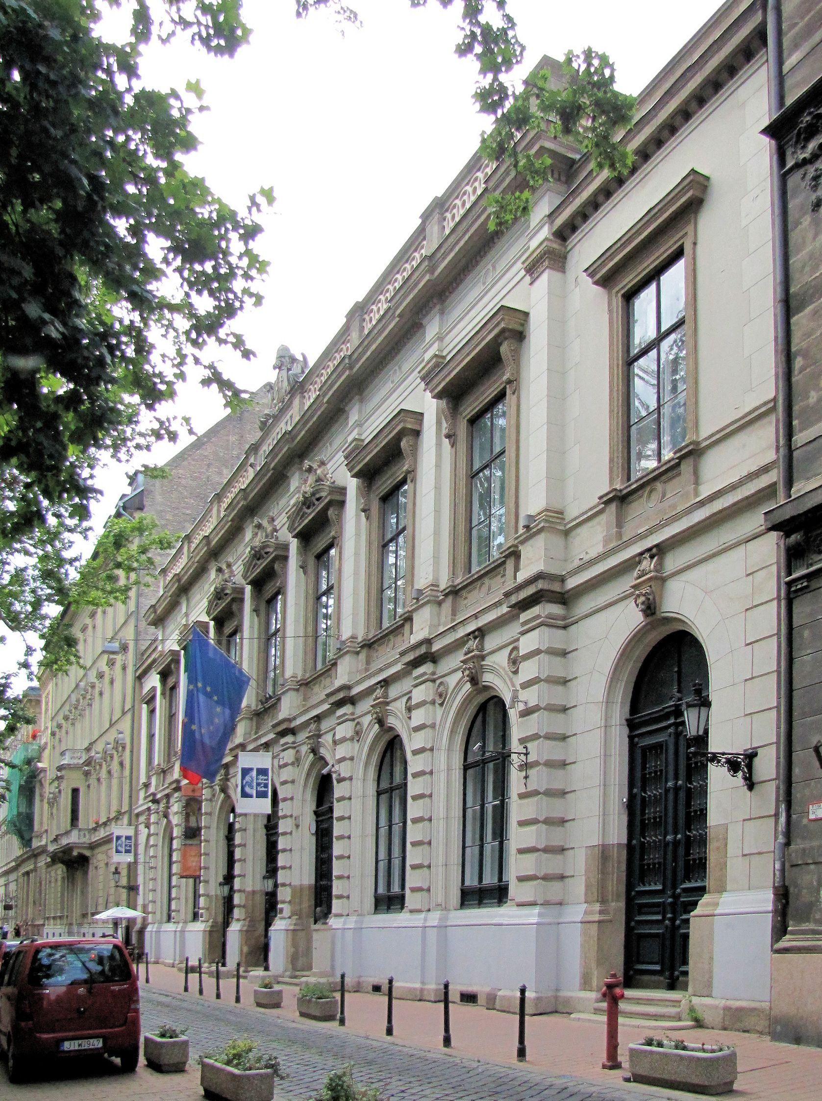 Former House of Parliament, today Italian Cultural Institute, Budapest, Bródy Sándor Street.